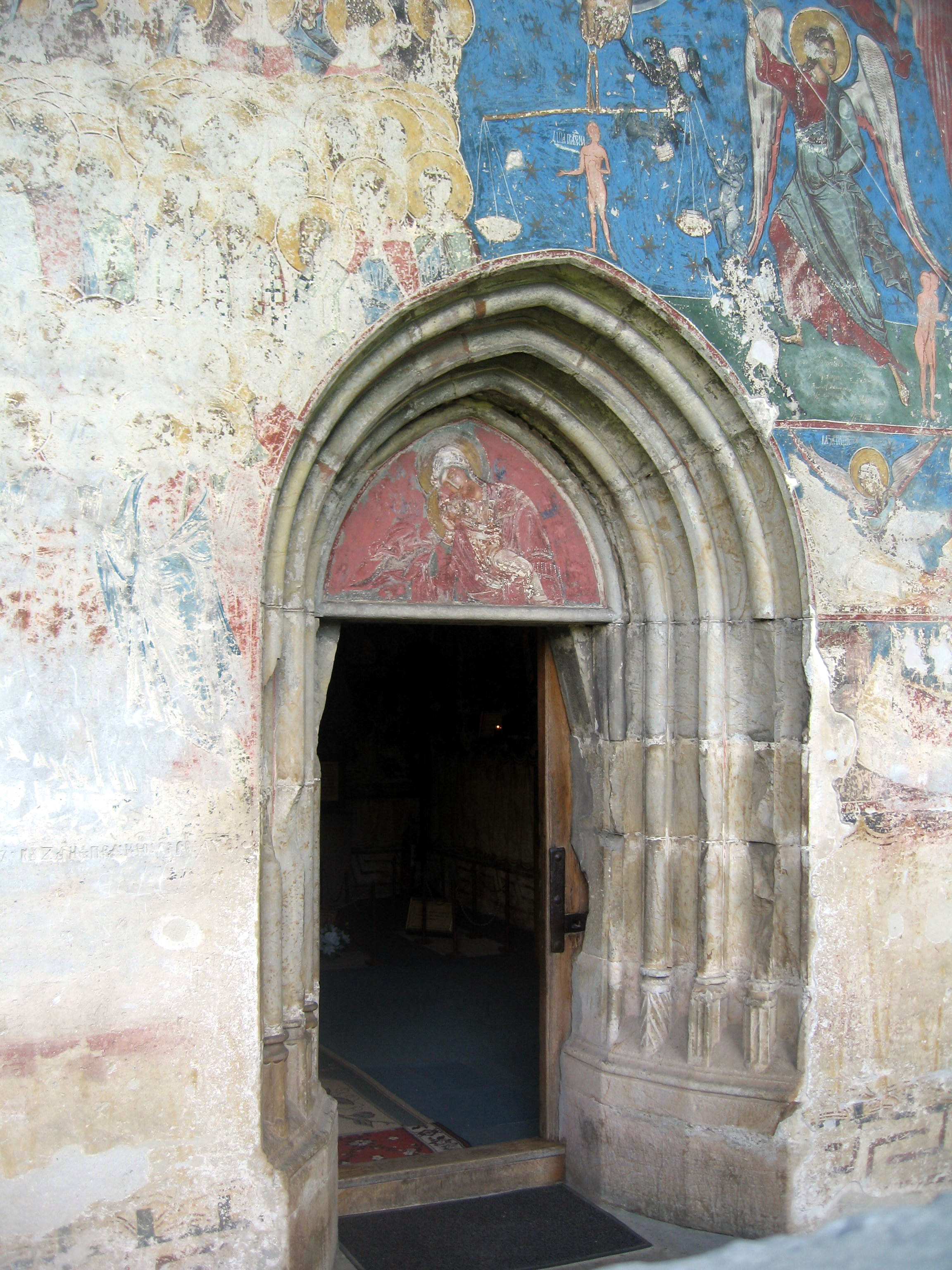 Humor Monastery